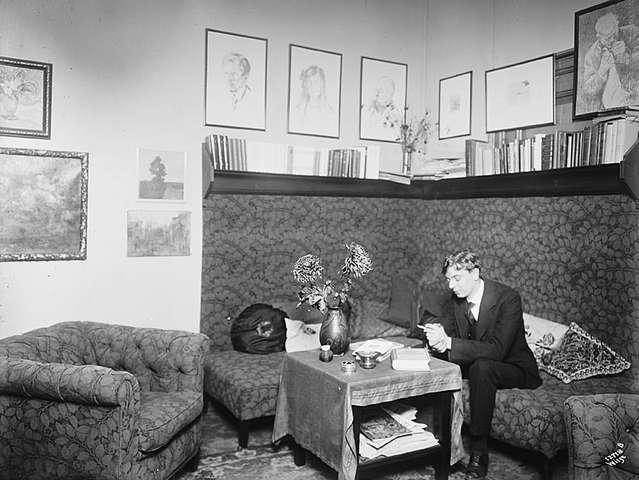 Norwegian journalist, essayist, theatre and literary critic, translator and playwright Helge Krog